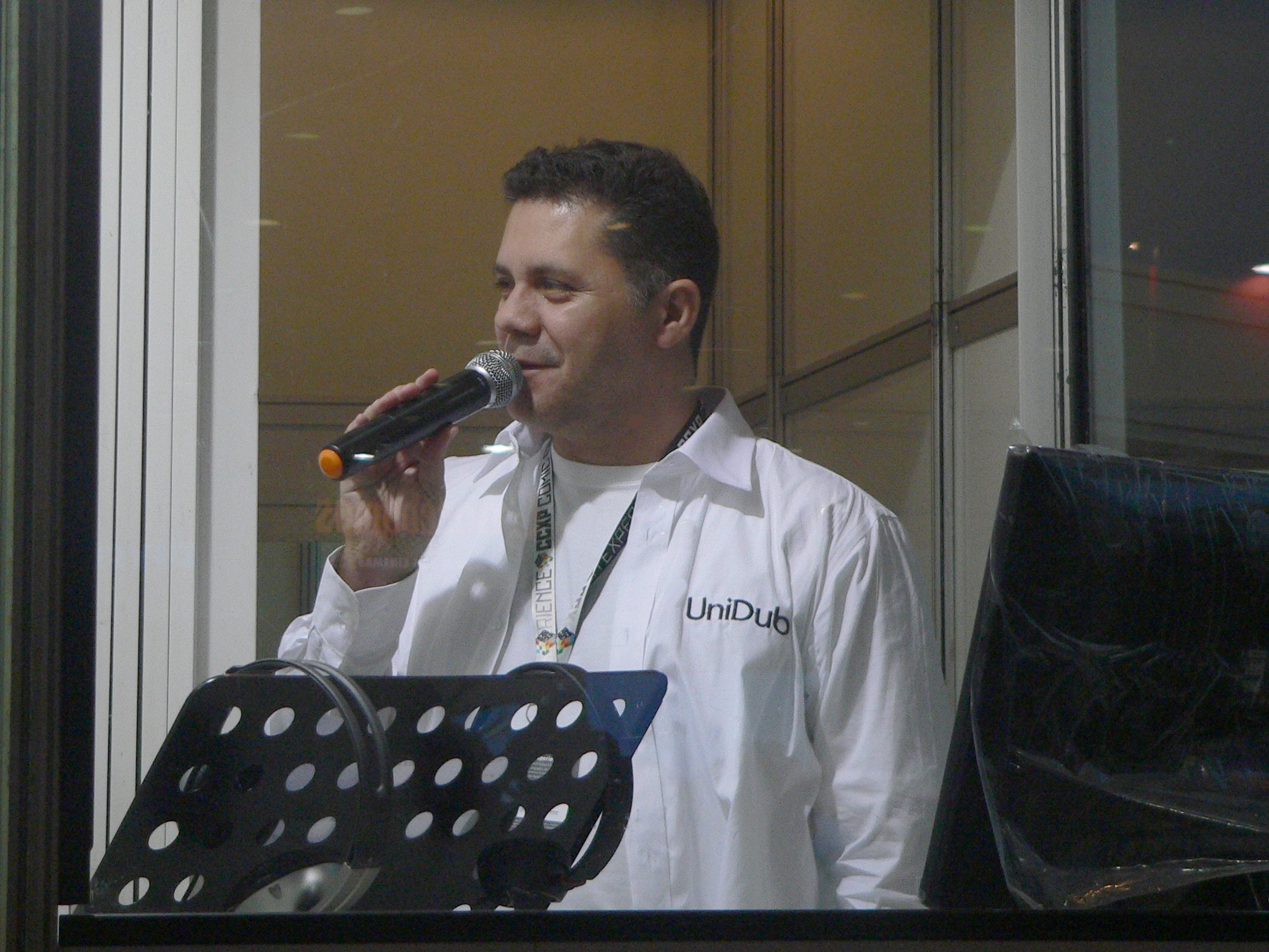 Brazilian voice actor Wendel Bezerra at the 2014 Comic Con Experience in São Paulo, Brasil.